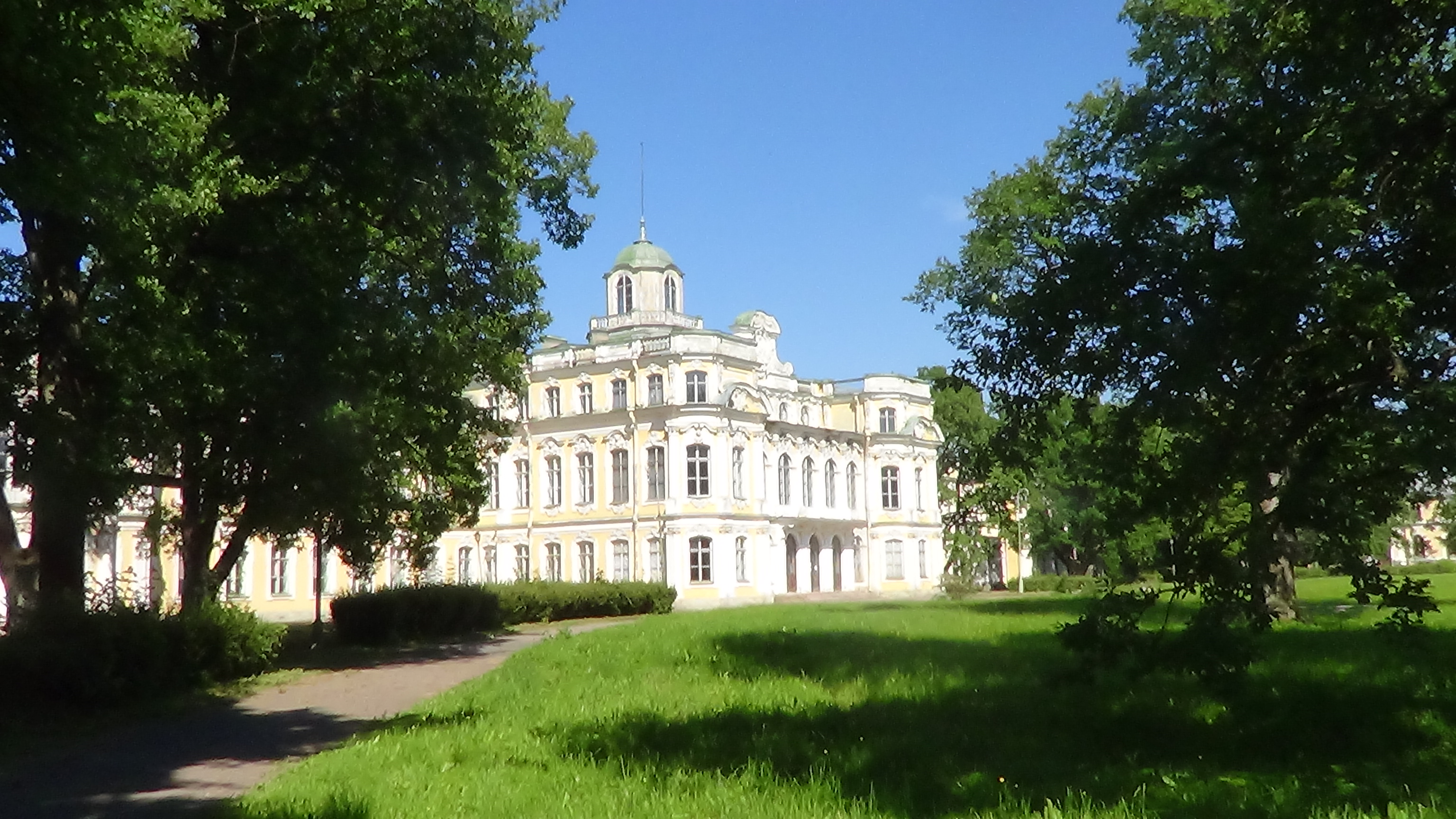 Saint Petersburg (Russia), Petergof.